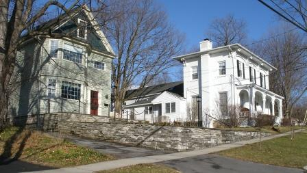 An Italianate house at 501 Pleasant Street (on right) and neighboring house at 409 Pleasant Street in village of Manlius, New York. Contributing properties in Manlius Village Historic District.